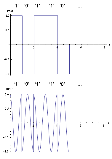 BPSK